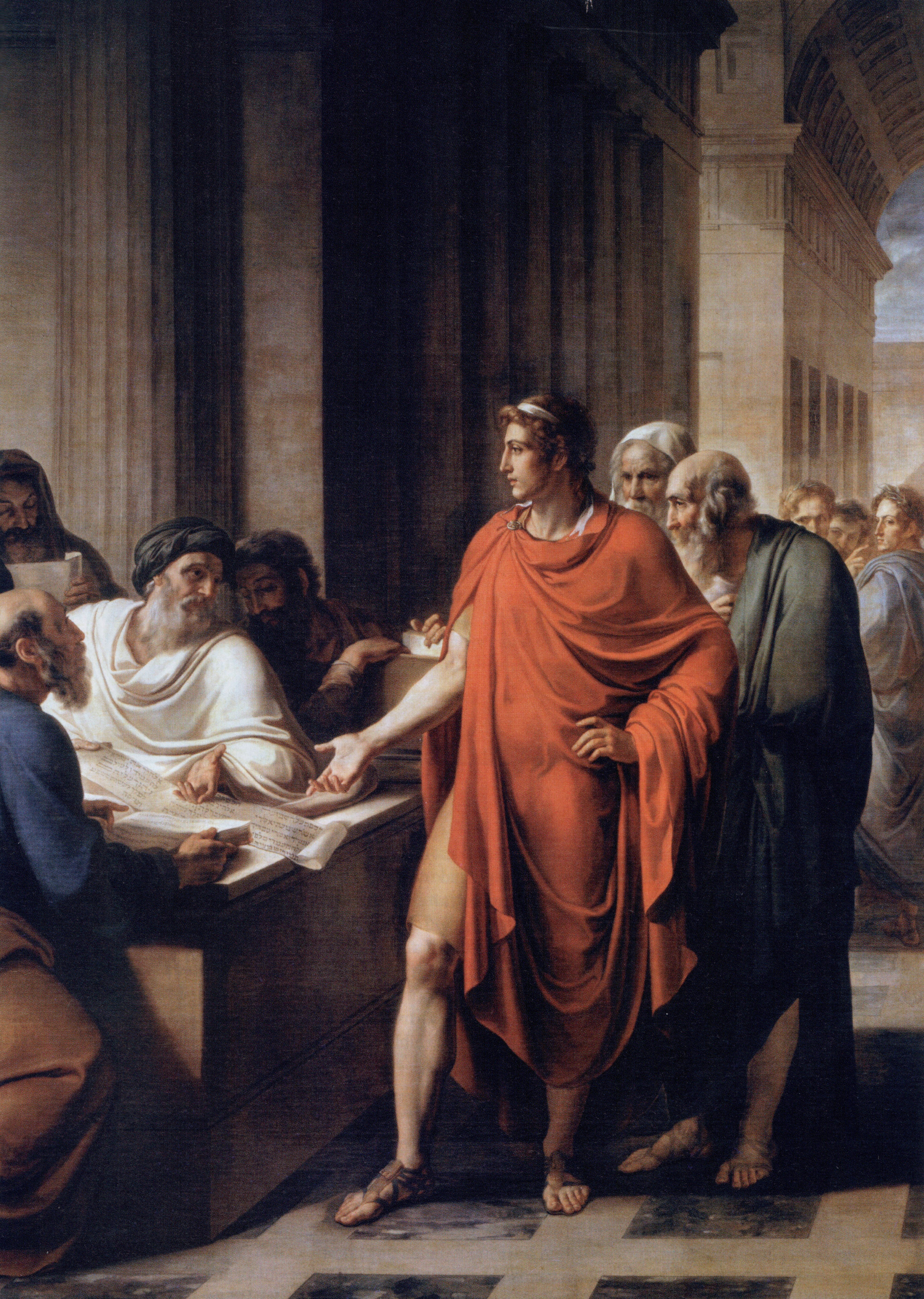 Ptolemy II Philadelphus examining a roll of papyrus